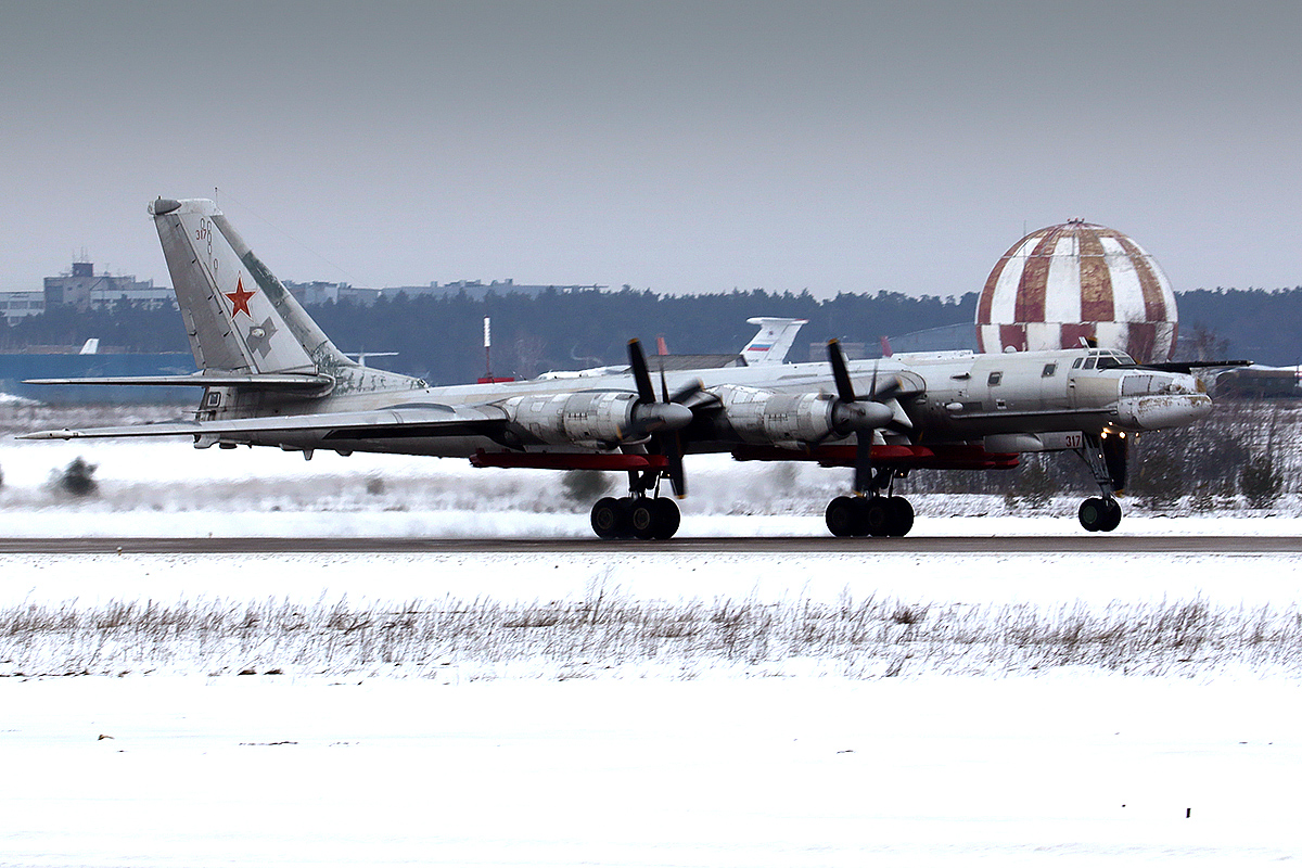 Bear